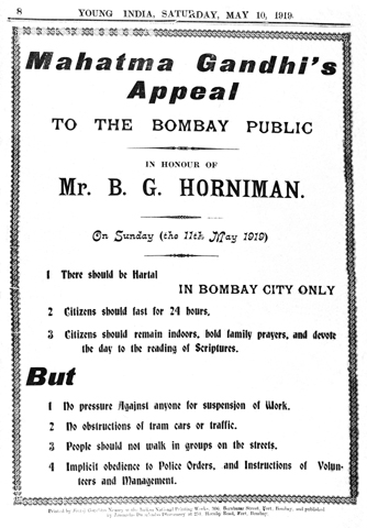 Gandhi's Appeal, Young India, May 10, 1919.